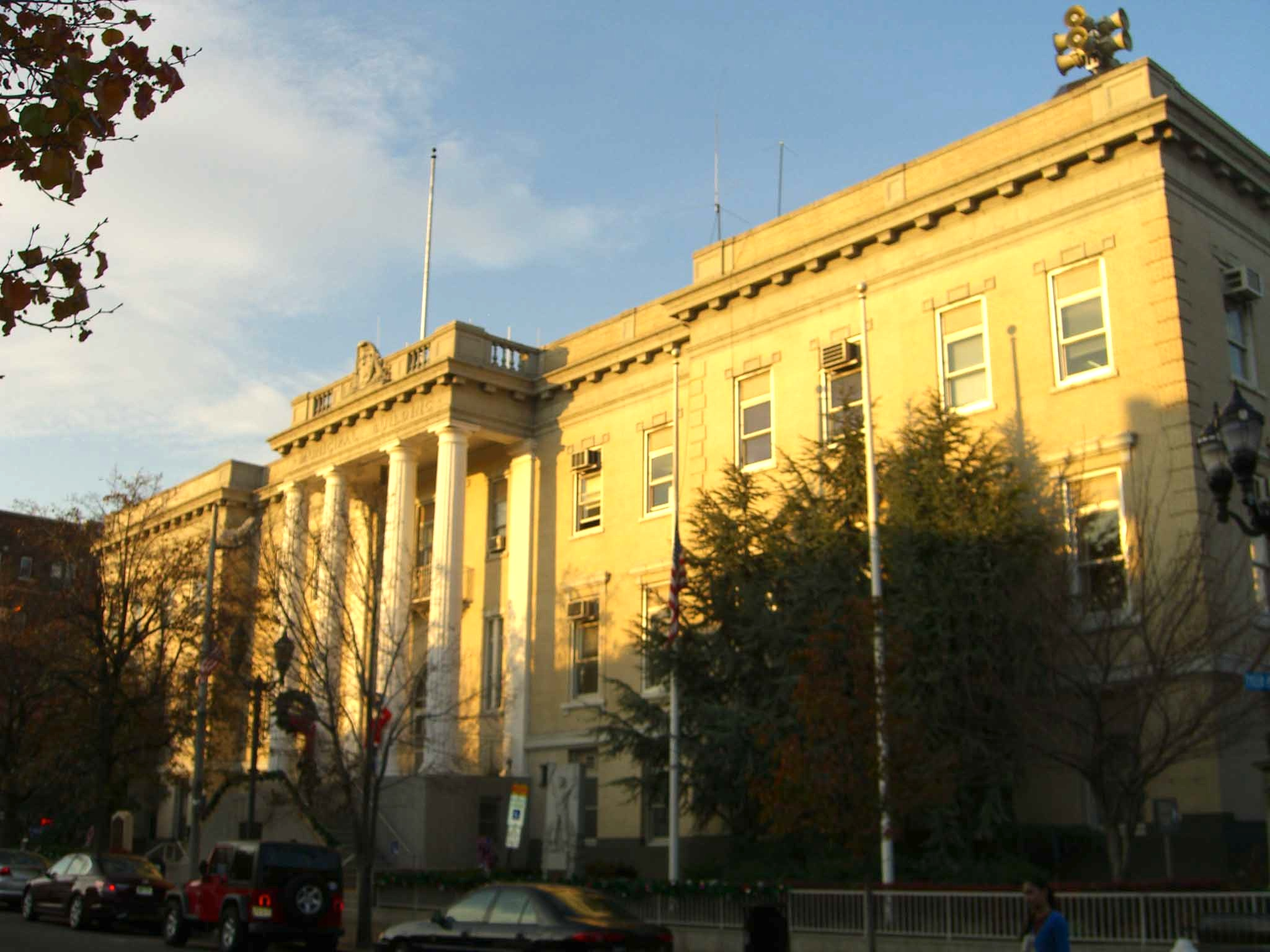 West New York, New Jersey's City Hall on November 22, 2010. This photo was created by Luigi Novi. It is not in the public domain, and use of this file outside of the licensing terms is a copyright violation.